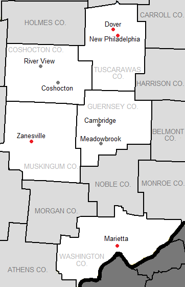 Map showing league lineup c. 2011